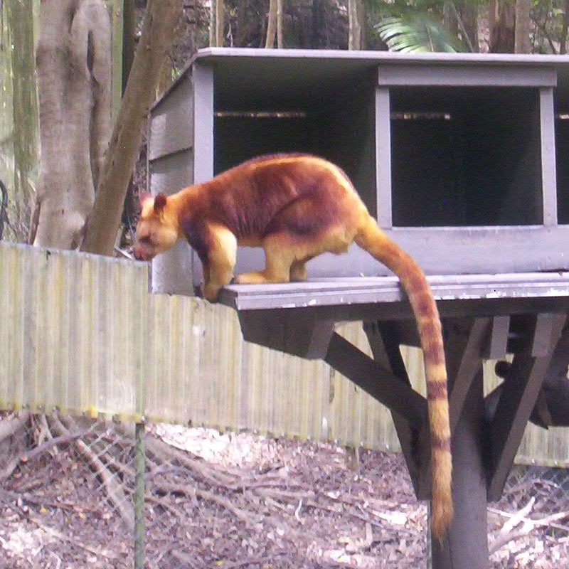 Goodfellow's Tree-Kangaroo at Currumbin Wildlife Sanctuary, Queensland, Australia. Photo taken on 17 November, 2015